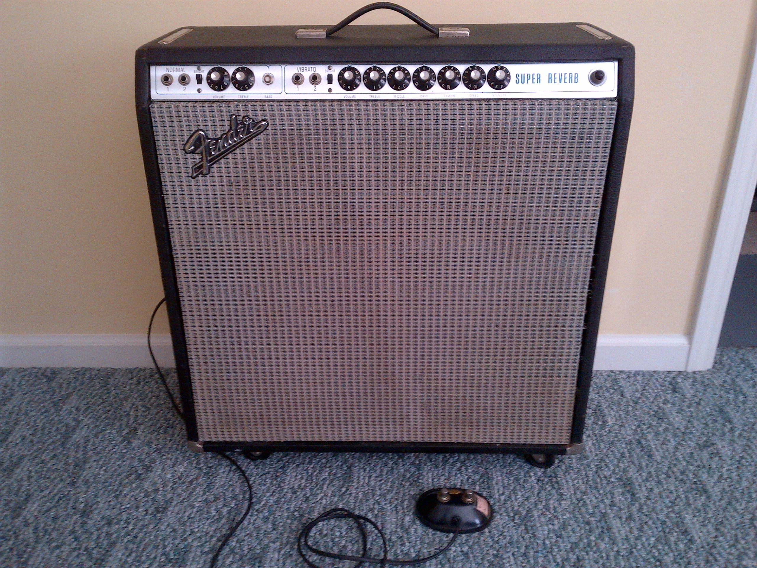 A color photograph of a 1972 Fender Super Reverb